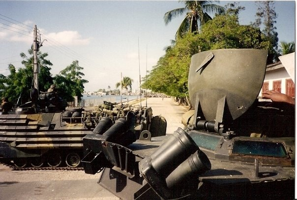 Operation Support Democracy. The Morning of the Invasion, Cap-Haïtien, Haiti. September 20th, 1994.